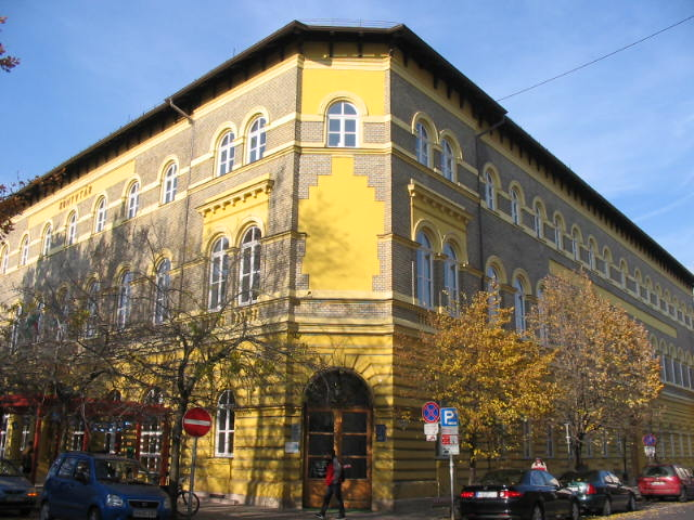 Ferenc Verseghy County Library (Szolnok, Hungary)